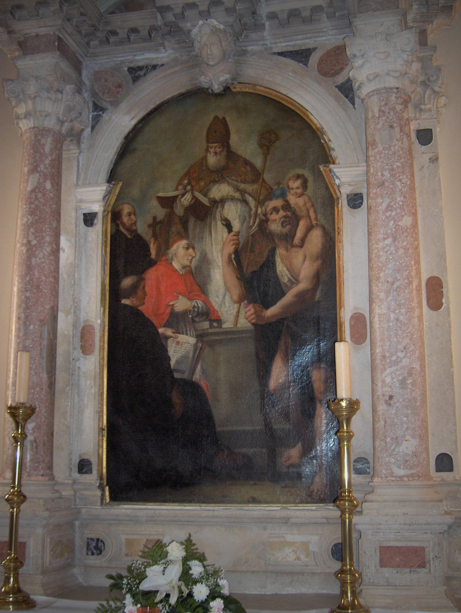 Side altar in the Church of the Assumption, Krk, on the island of Krk, Croatia